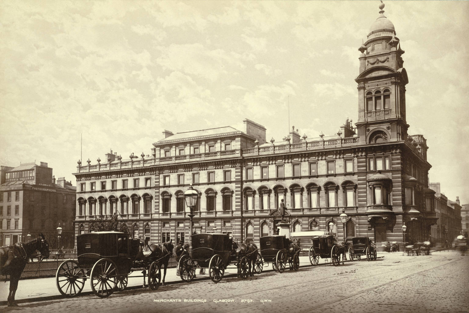 en1=Collection: A. D. White Architectural Photographs, Cornell University Library Accession Number: 15/5/3090.01221 Title: Glasgow. Merchants' House and west side of George Square Photographer: George Washington Wilson (Scottish, 1823-1893) Architect: Sir John J. Burnet (Scottish, 1857-1938) Building Date: 1874 Photograph date: ca. 1874-ca. 1885 Location: Europe: United Kingdom; Glasgow Materials: albumen print Image: 7 1/2 x 11 3/8 in.; 19.05 x 28.8925 cm Style: Victorian Provenance: Gift of Andrew Dickson White Persistent URI: [1] There are no known copyright restrictions on this image. The digital file is owned by the Cornell University Library which is making it freely available with the request that, when possible, the Library be credited as its source. We had some help with the geocoding from Web Services by Yahoo!